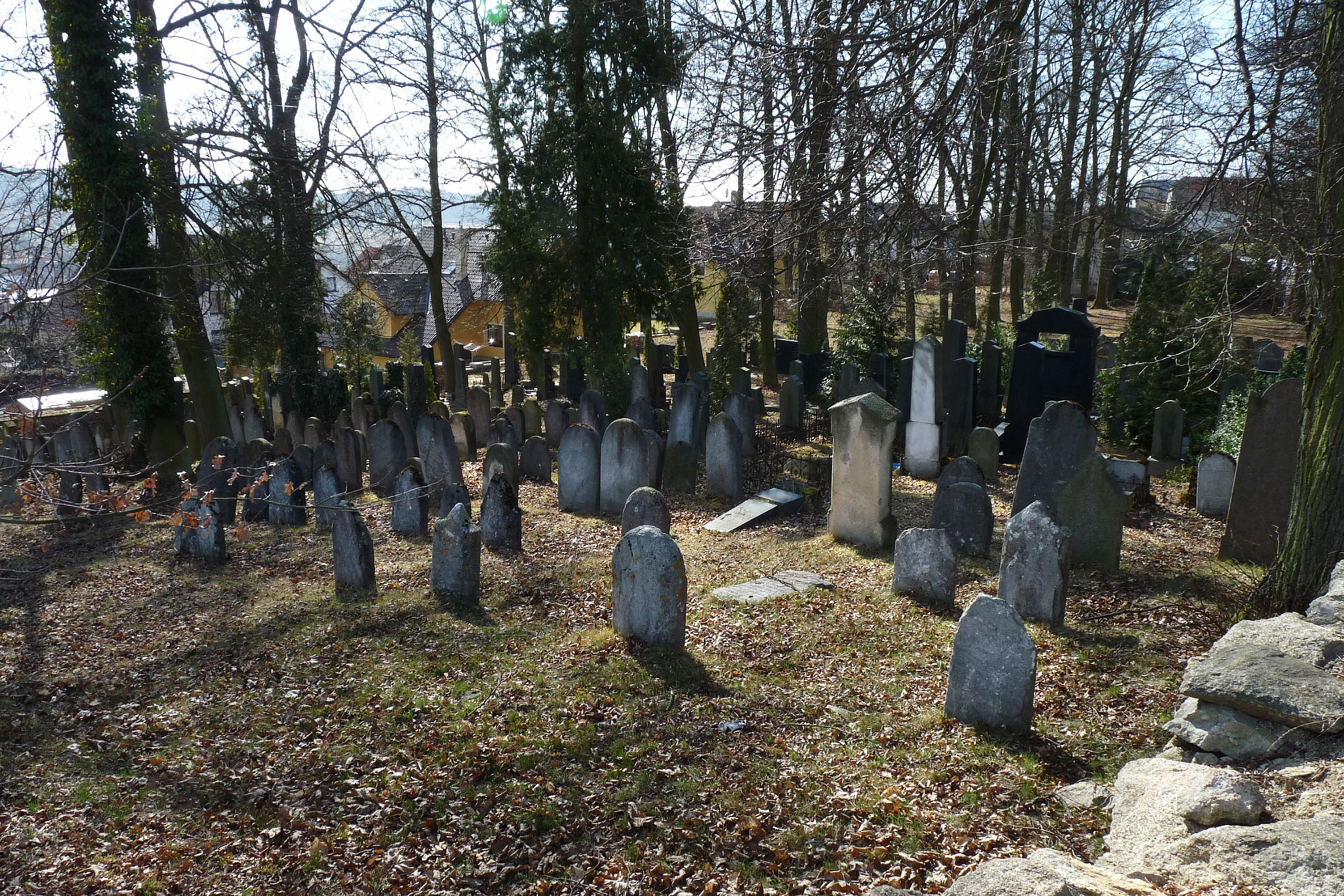 Jewish cemetery in the town of Horažďovice, Klatovy District, Czech Republic - view from behind the eastern wall